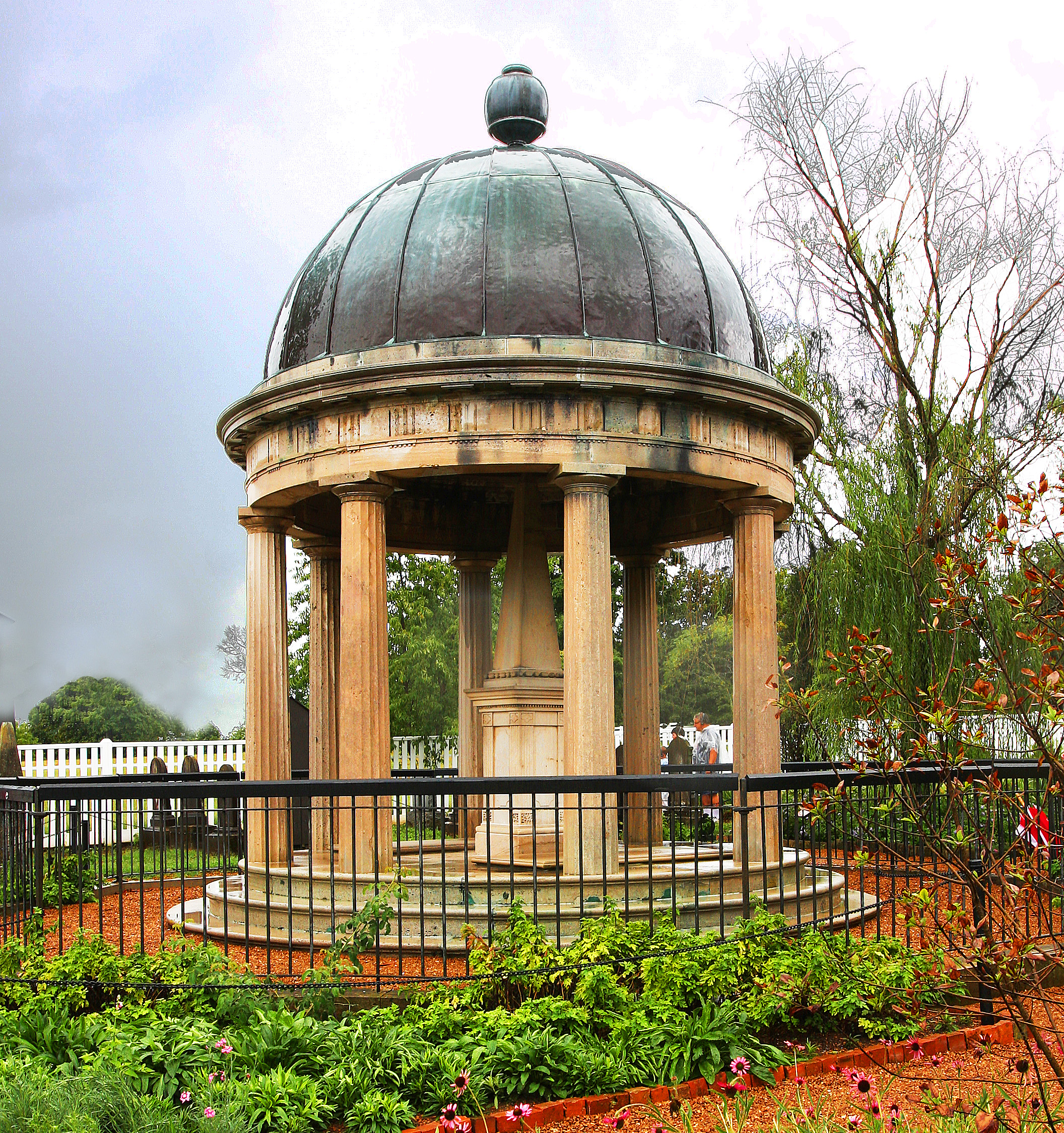 Andrew Jackson's Tomb